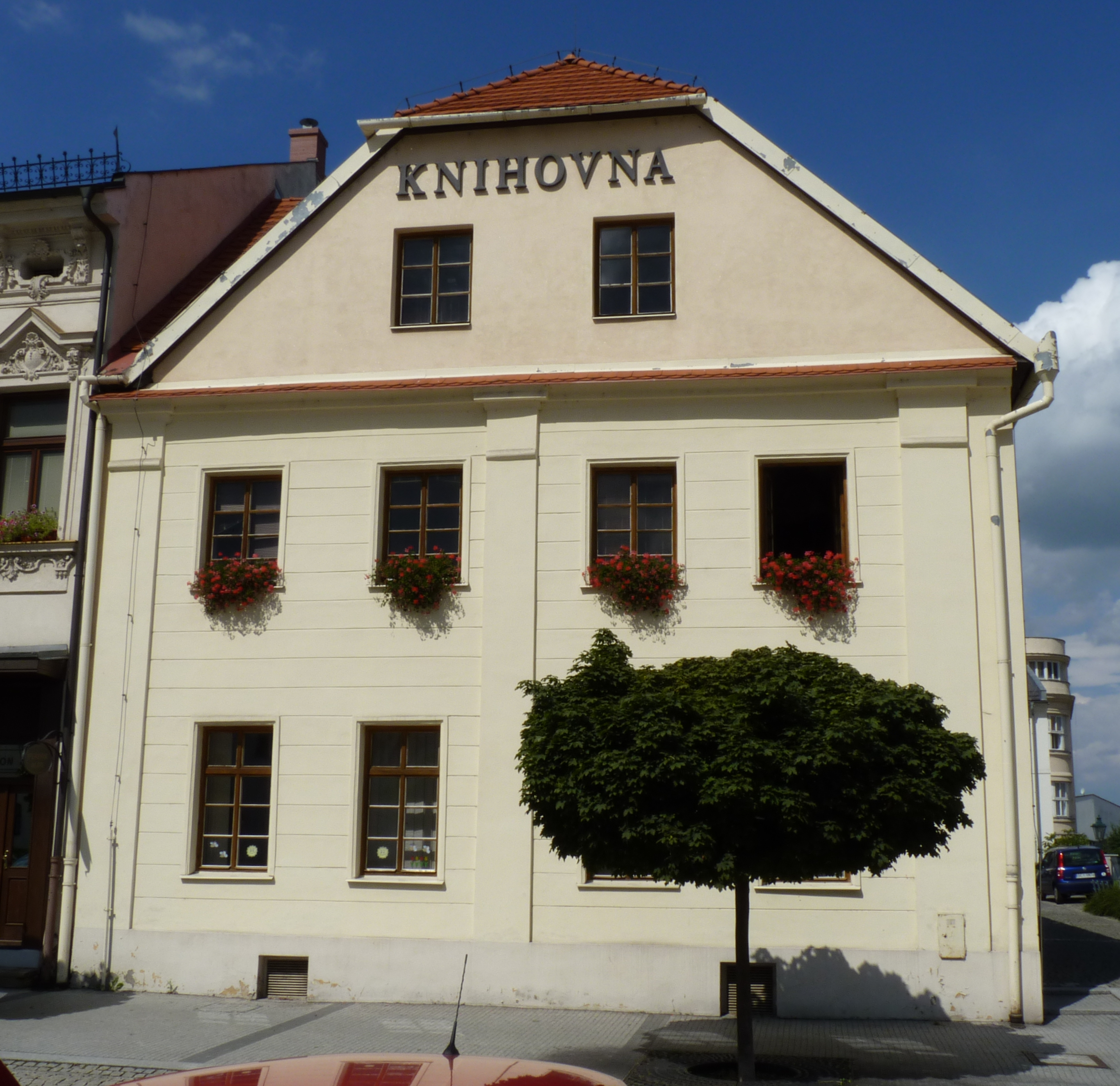 Library in Fryštát. Karviná, Karviná District, Moravian-Silesian Region, Czech Republic